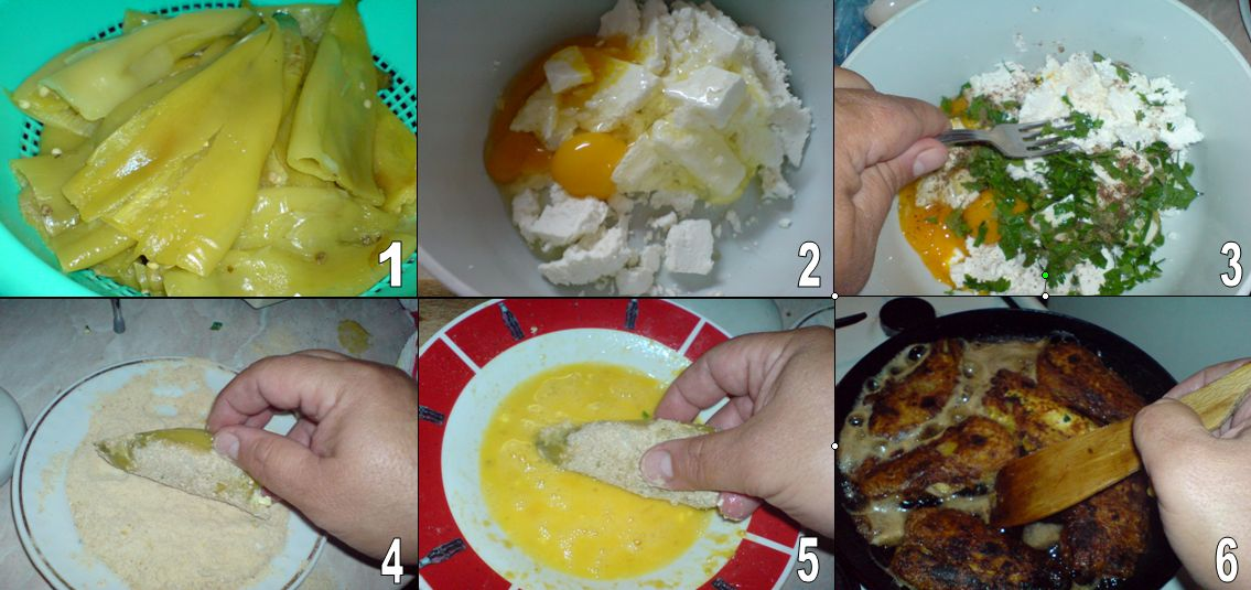 Chushki byurek (чушка бюрек) - traditional and very populary bulgarian dish, similarly prepared with cheese and eggs, a peeled and roasted pepper filled with cheese.